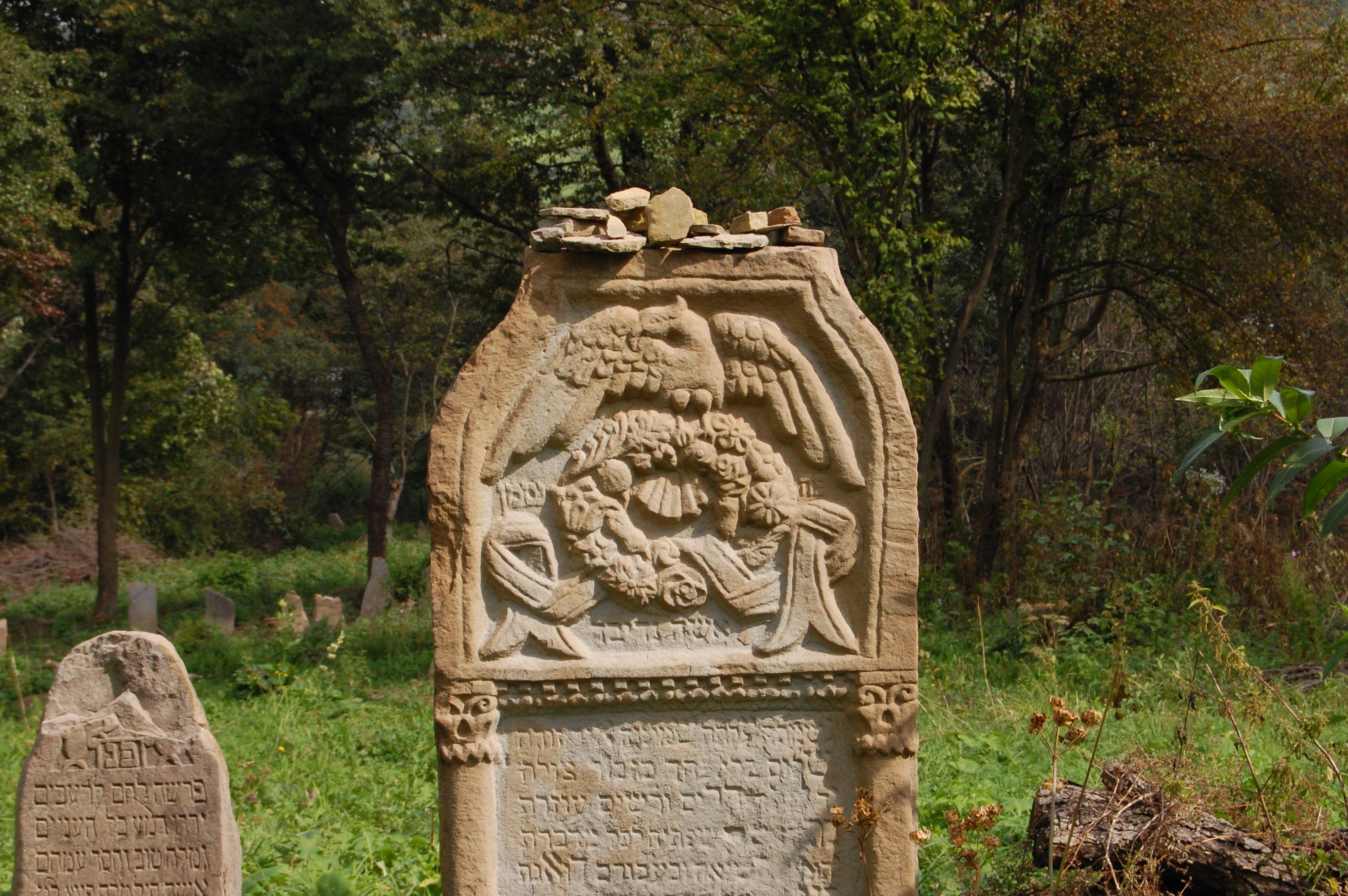 Kirkut